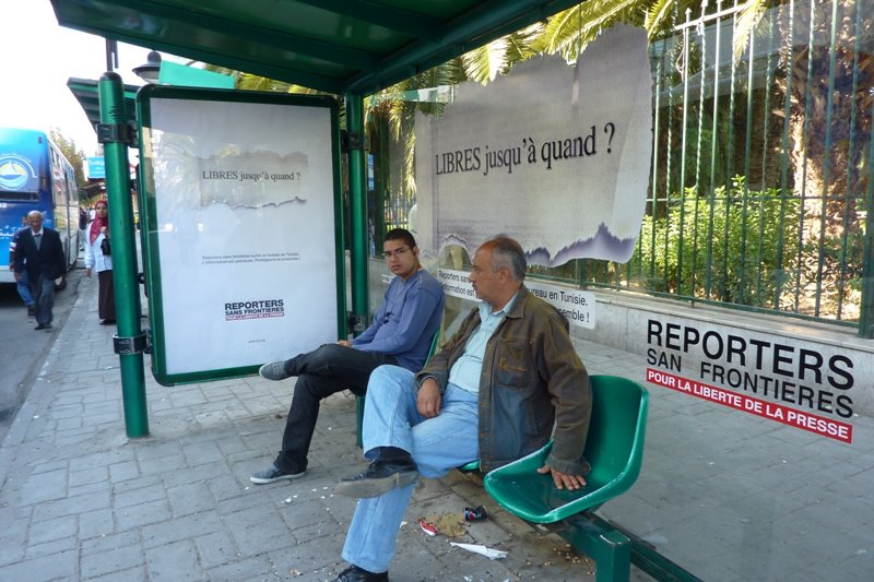 [Monia Ghanmi] Reporters Without Borders launched a media campaign under the slogan “Free… but for how long?” to support freedom of the press in Tunisia.